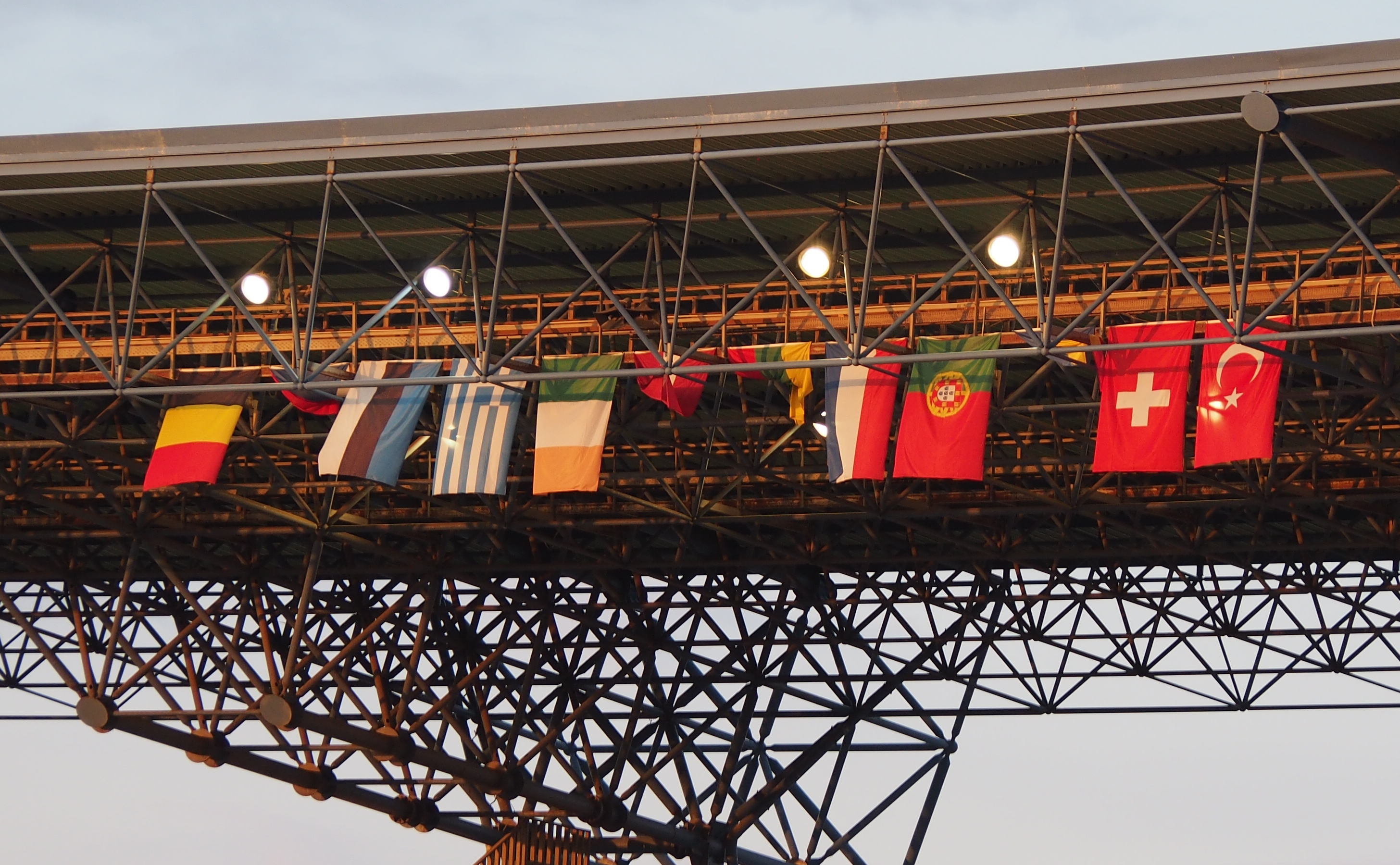 The flags of the participating countries at the 2015 European Team Championships First League, held at Heraklion during 20-21 June, hanging from the roof of Pagkritio stadium. They are from the left Belgium, Czech Republic, Estonia, Greece, Ireland, Latvia, Lithouania, Netherlands, Portugal, Romania, Switzerland and Turkey.